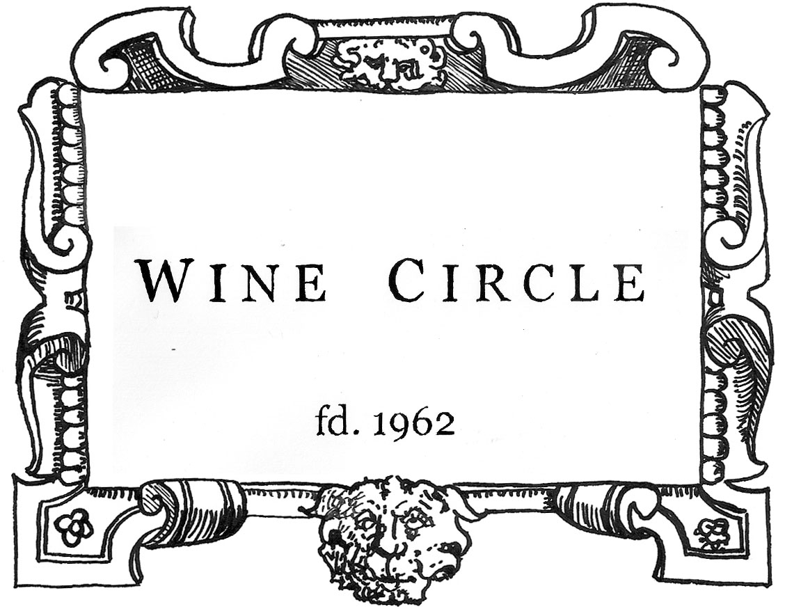 The logo of the Oxford Wine Circle